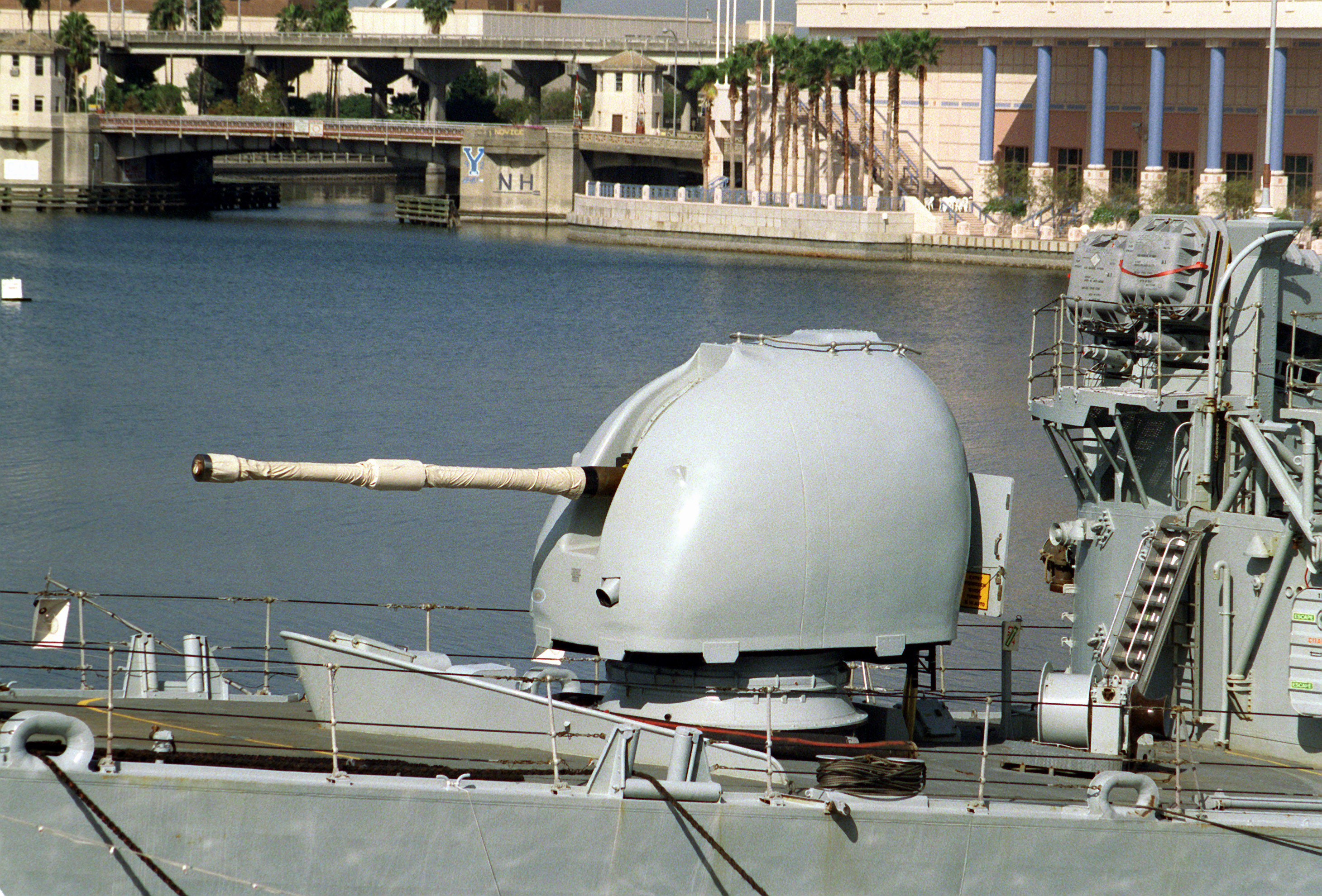 A close-up view of the 4.5 inch Mark 8 naval gun Royal Navy frigate HMS Avenger (F185) at Tampa Bay, Florida (USA), in 1992.